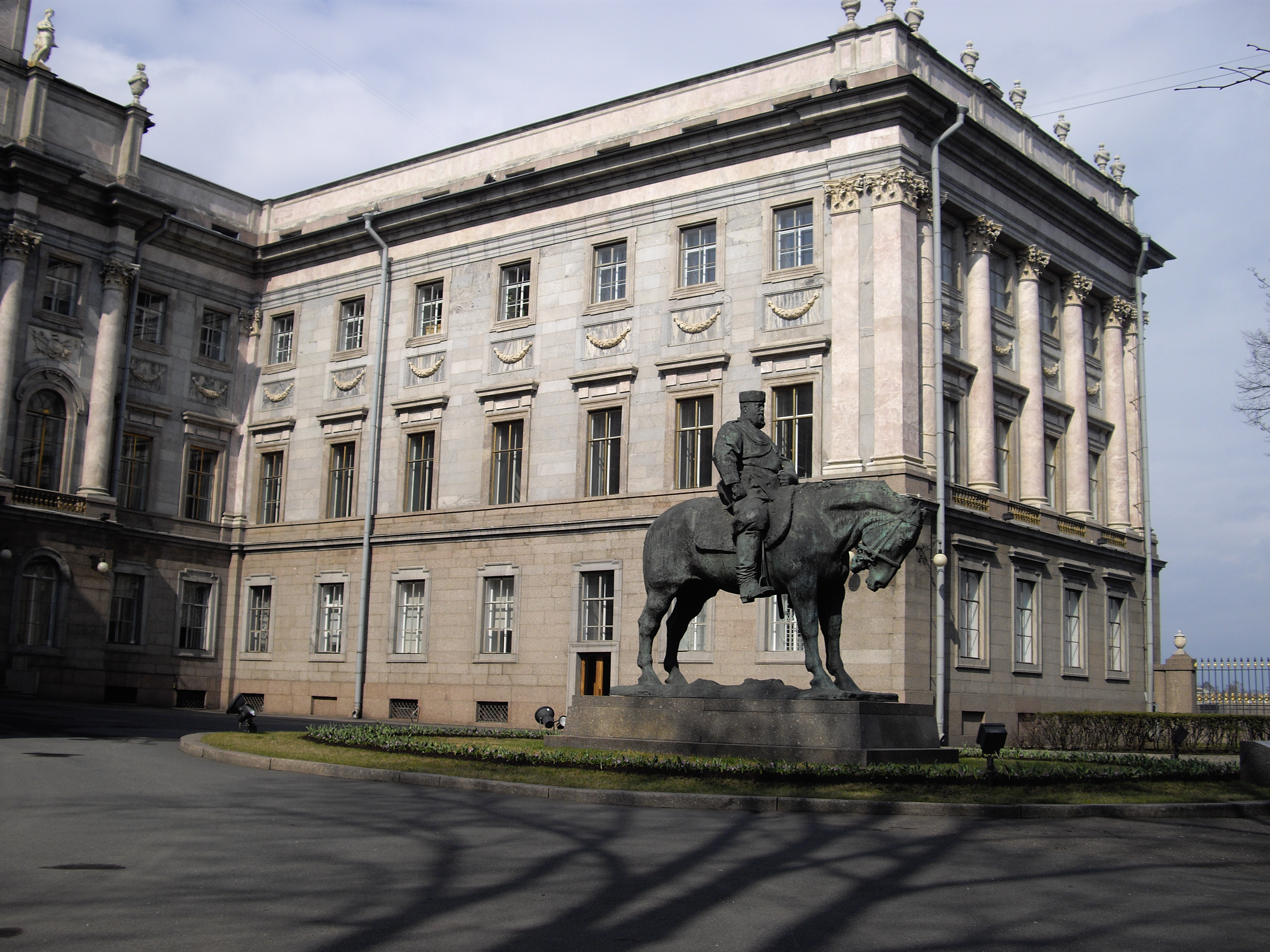 Monument to Alexander III of Russia (work of Paolo Troubetzkoy) in front of the Marble Palace in Saint-Petersburg.